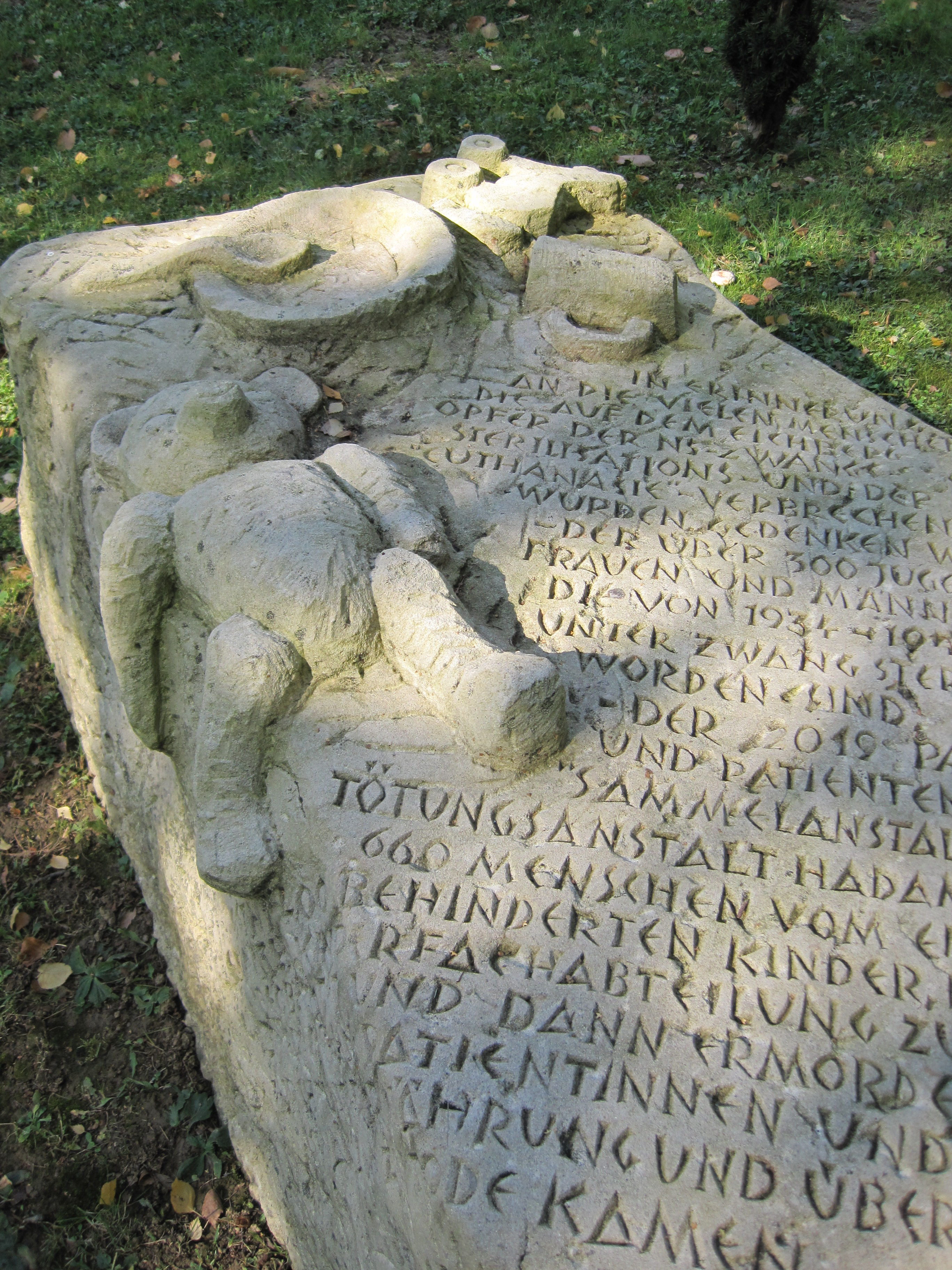 Euthanasia memorial at Landesheilanstalt Eichberg, Eltville, Germany. 1993 by Uwe Kunze